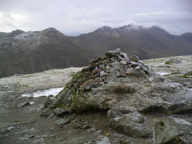 Beinn a'Chochuill : Munro No 172. The summit cairn at 980m. The view behind the cairn is to the west south west and Ben Cruachan (with its top just in the cloud)